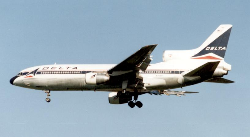 达美航空的洛克希德L-1011在曼彻斯特机场降落